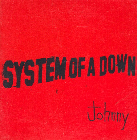 This is the cover art for the single Johnny by the artist System of a Down. The cover art copyright is believed to belong to the label, American Recordings, or the graphic artist. System of a Down's Johnny single album cover.